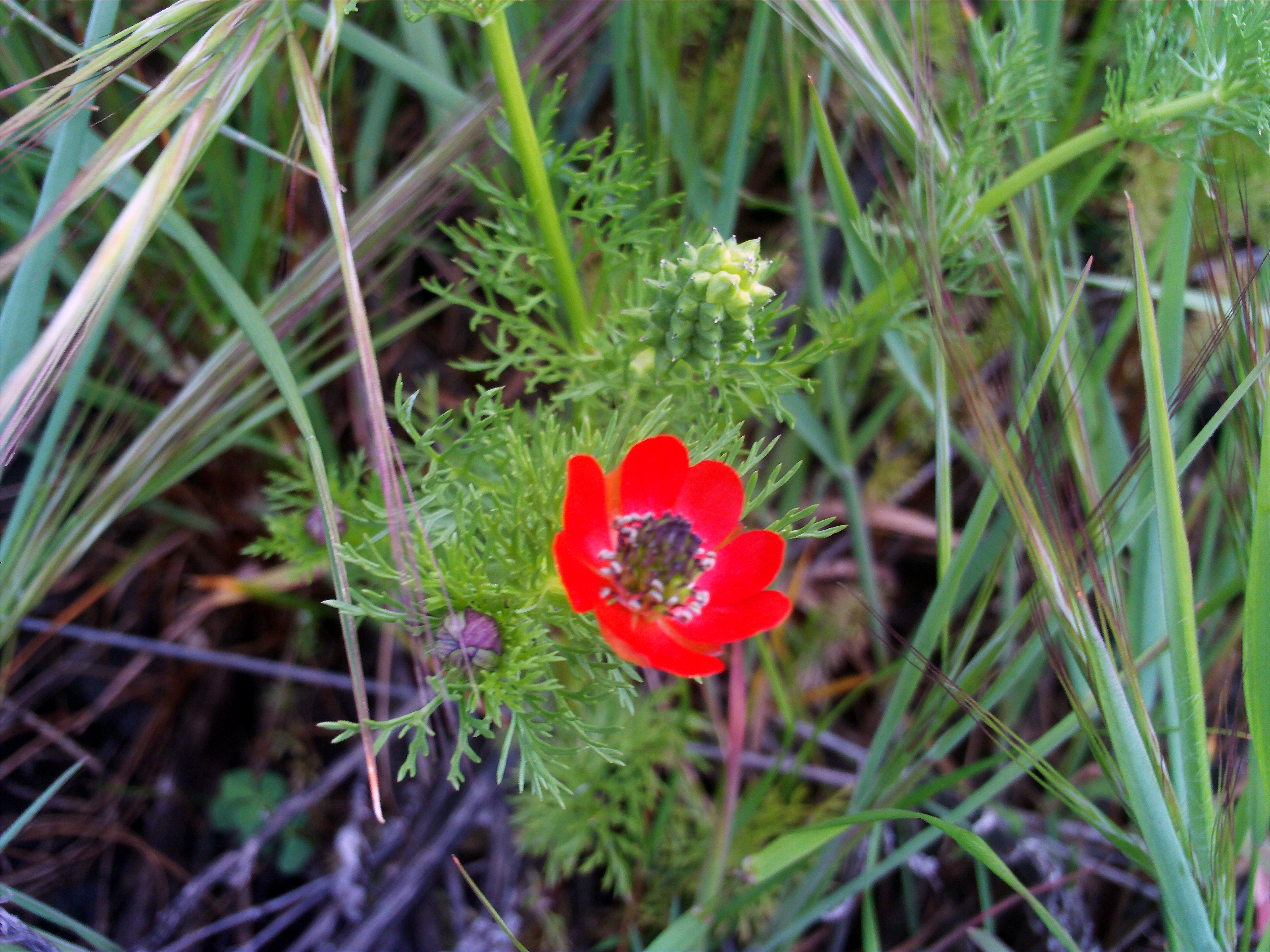 Adonis annua subsp. annua Flowers Close up Campo de Calatrava, Spain